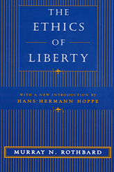 The front book cover art for the book The Ethics of Liberty by the author Murray Rothbard. The book cover art copyright is believed to belong to the publisher or the cover artist.